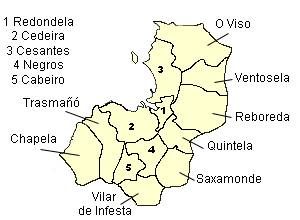 Political map of Redondela (Galiza)